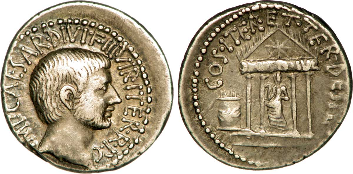 Denir à l'effigie d'Octave Date : c. 36 AC. Description revers : Temple tétrastyle du divin Jules avec le fronton triangulaire orné d’un astre (sidus Iulium) et inscription dans l’architrave . Description avers : Tête nue d'Octave à droite, légèrement barbu (O°) . Traduction avers : “Imperator Cæsar Divi Filius Triumvir Iterum Rei Publicæ Constituandæ”, (Imperator Octave fils du divin Jules, triumvir pour la seconde fois pour la restauration de la République) .